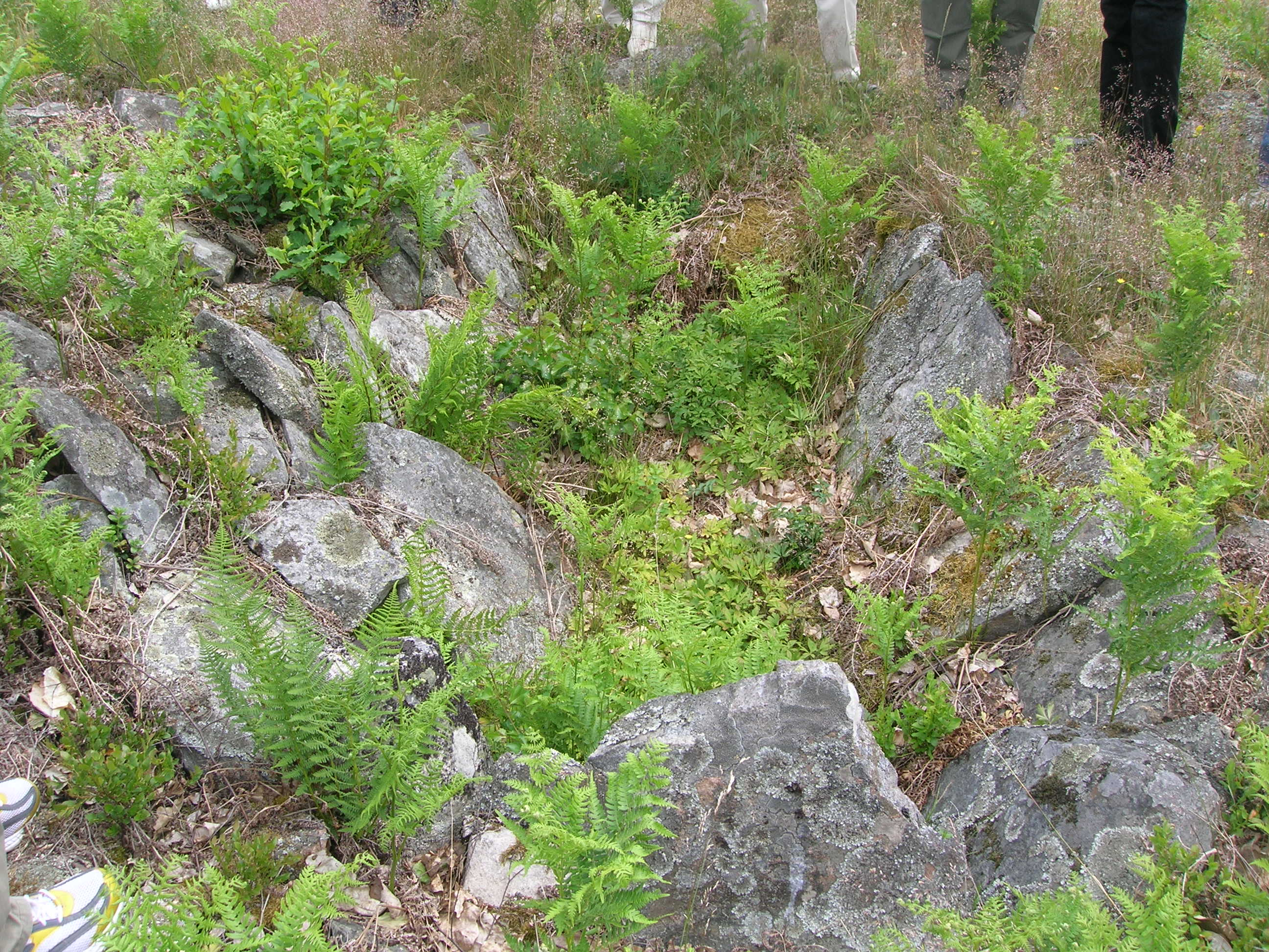 Photo of a Cist in the village of Bösebo in Sweden